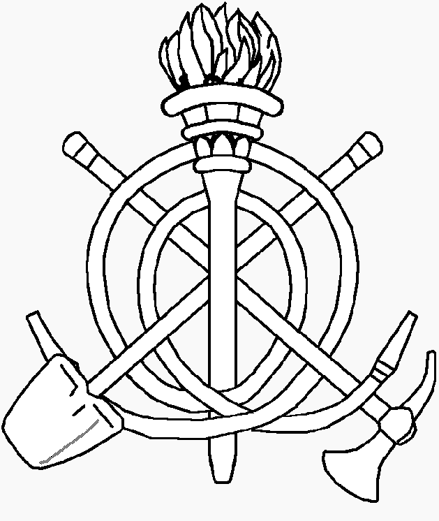 Old coat of arms of Battalion of Sapper - Parana / Brazil.